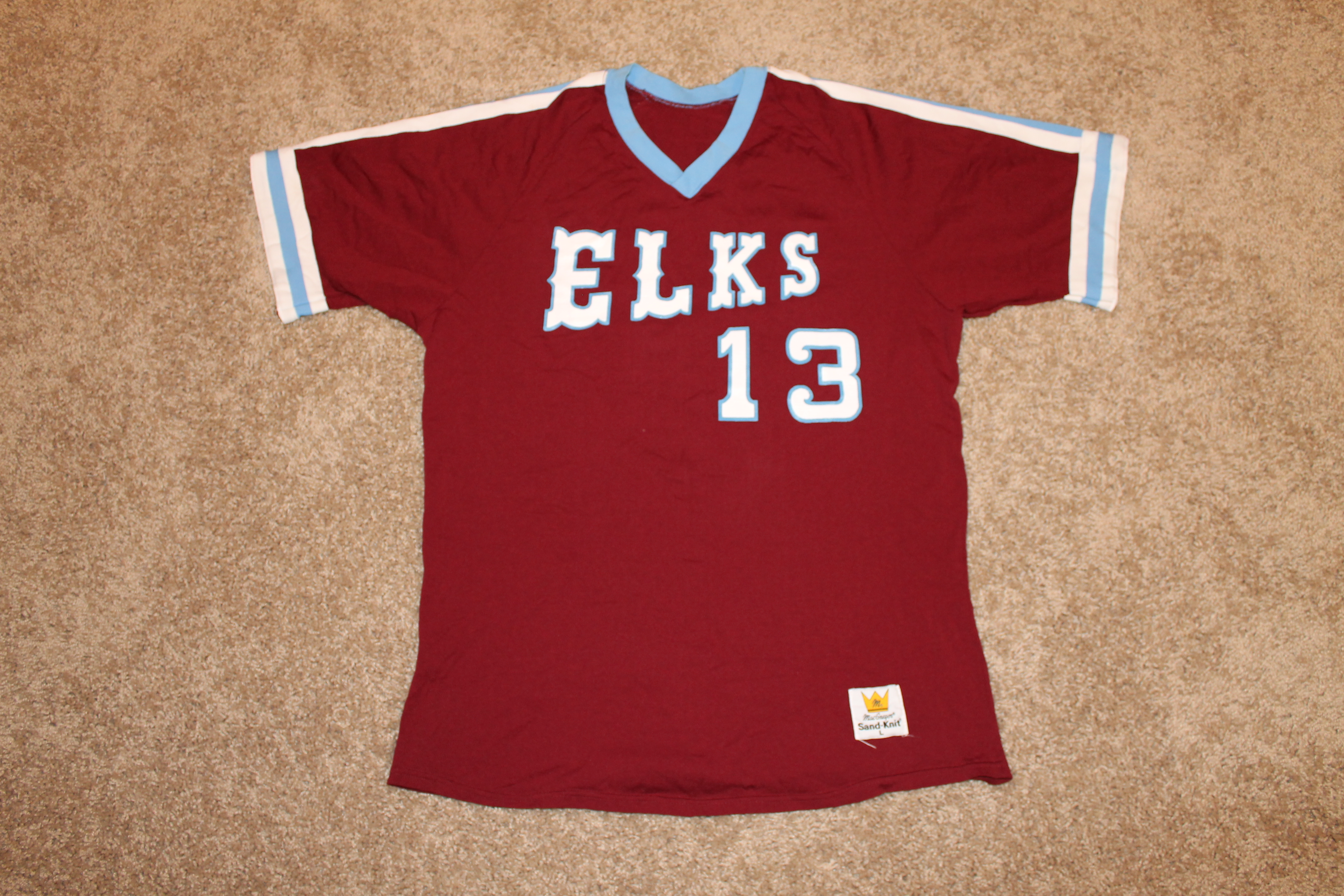 Hazlet Elks Away Jersey